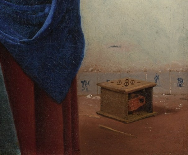 Part of "The Milkmaid" by Johannes Vermeer, painted 1657 or 1658, from close to the lower left-hand corner of the painting, showing the patch of floor where the clothes basket was painted over, the distinctive, brilliant blue of the maid's dress and the foot warmer, a much-discussed symbol in the painting, as well as the Delft tiles showing Cupid (to the left of the foot warmer) and a man with a pole or similar object (to the right of the foot warmer). The tiles have also been considered symbolic by some critics. This picture has been cropped from the online source version